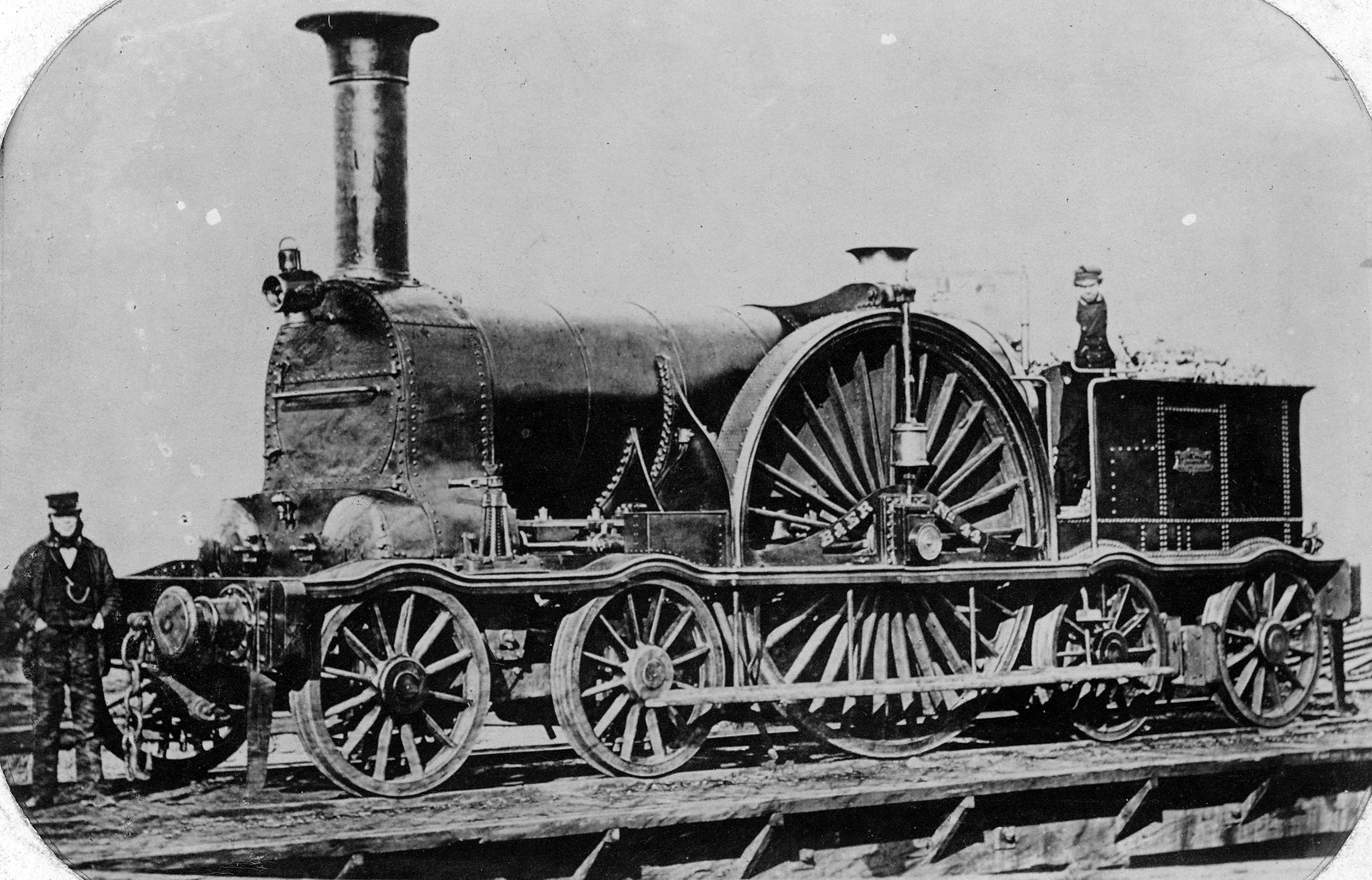 Bristol and Exeter Railway locomotive No. 44, built in England 1854, withdrawn 1870. Driving wheel diameter: 9 ft in (2.754 m) See Bristol and Exeter Railway 4-2-4T locomotives